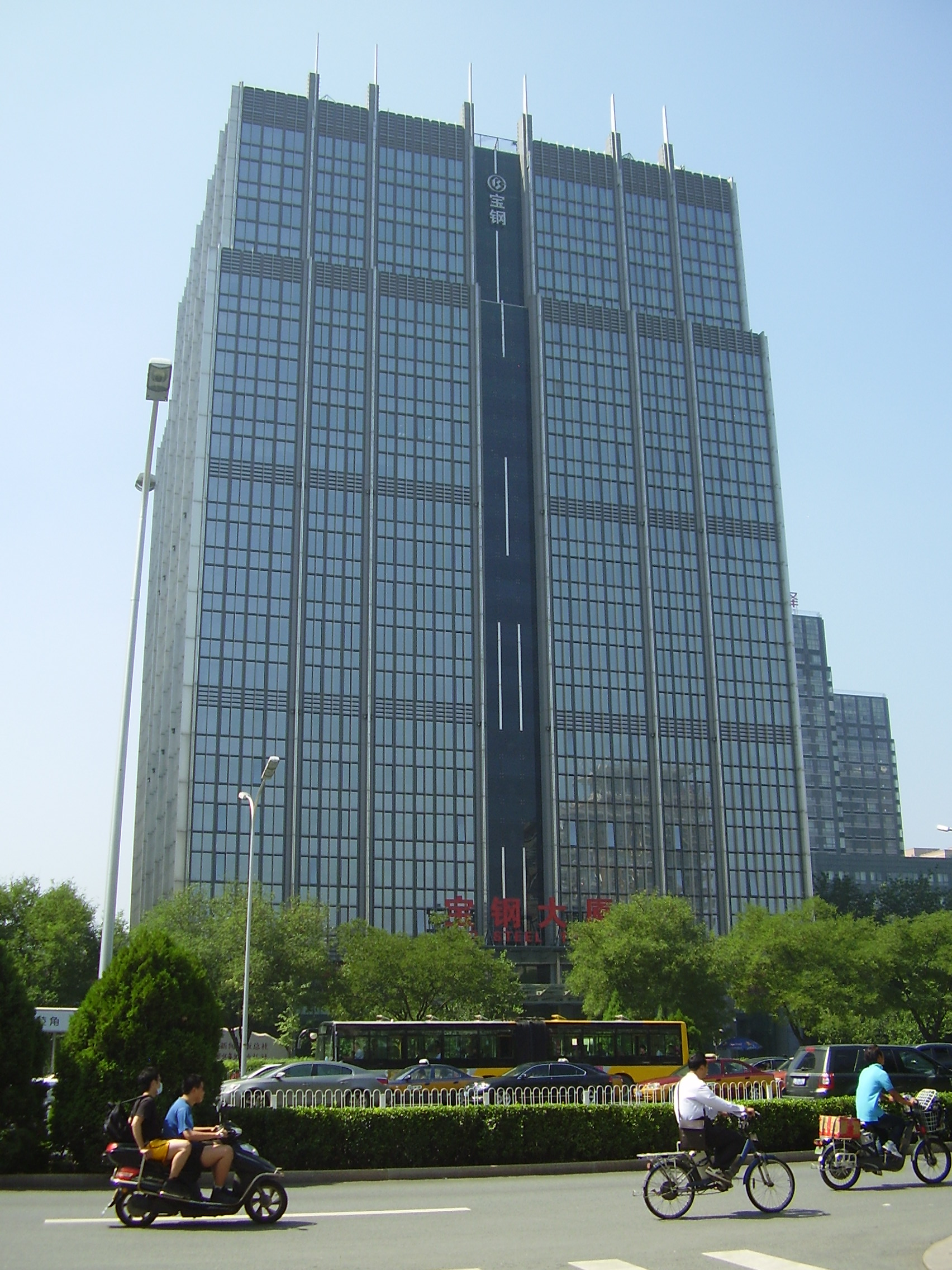 Beijing Baosteel Tower - No. 12 Jianguomen Outer Street (Jianguomen Waidajie), Chaoyang District, Beijing